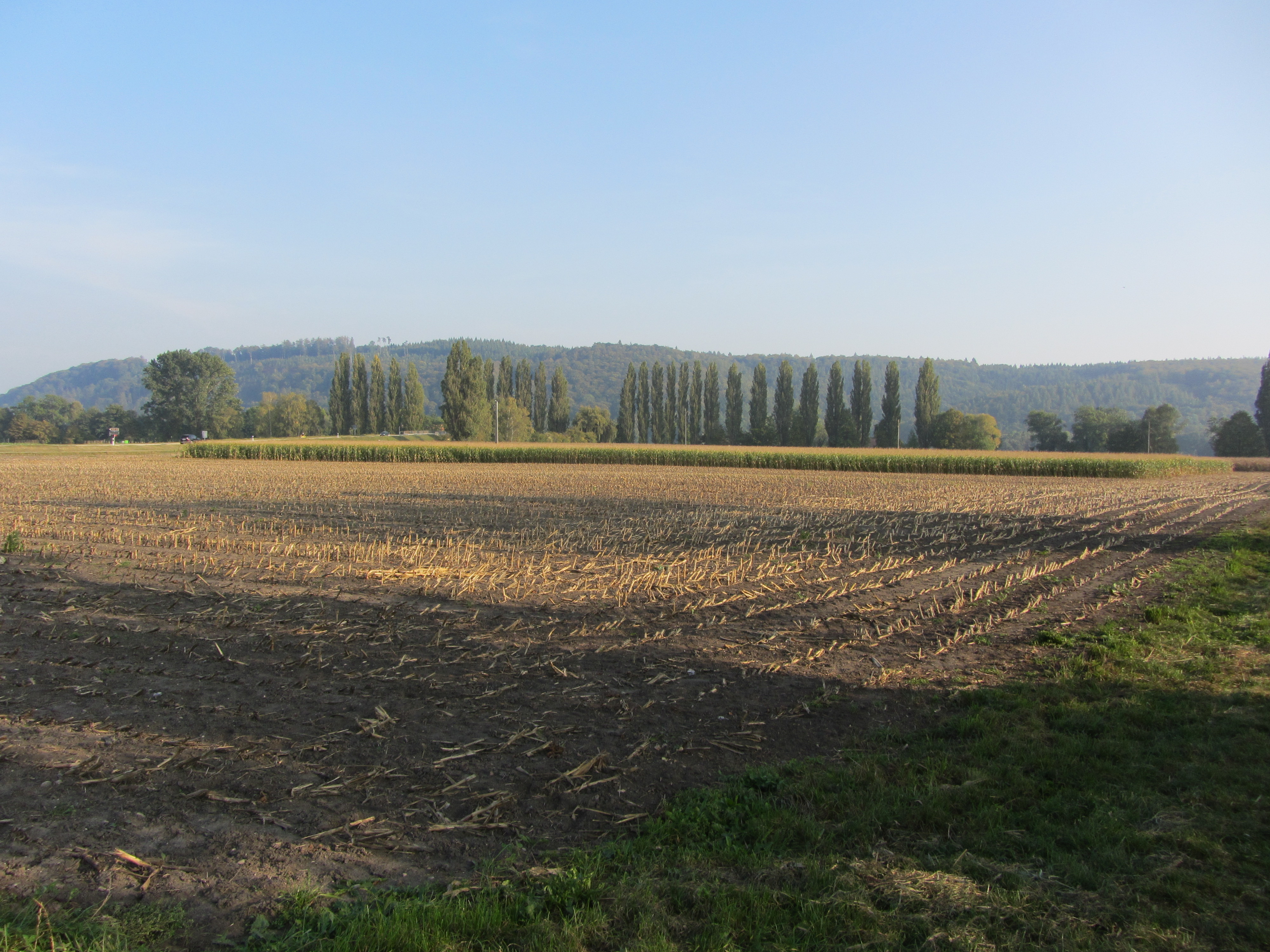 Switzerland, Le Landeron, La Vieille Thielle, archeological site